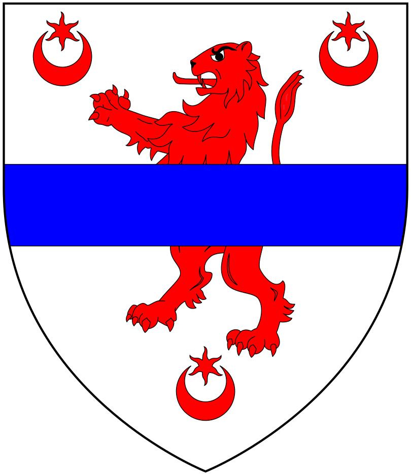 Arms of Dillon of Chymwell in the parish of Bratton Fleming, Devon: Argent, a lion rampant between three crescents an estoile issuant from each gules over all a fess azure. (Vivian, Lt.Col. J.L., (Ed.) The Visitations of the County of Devon: Comprising the Heralds' Visitations of 1531, 1564 & 1620, Exeter, 1895, p.284, with obvious printer's error in that the field is given erroneously as azure, with a fess also azure, in contravention of the "Rule of Tinctures", and would not show fully. Pole gives the field as Argent, but gives the location of the crescents incorrectly as on the fess. A relief-sculpted image of these arms survives on the large monument of Wikipedia:John Chichester (died 1569) of Raleigh, Pilton, Devon, see image: File:HeraldicPanelChichesterMonumentPiltonDevon1569.JPG, which shows the correct arrangement of the crescents and estoiles, althouigh the tincture of the field has been wrongly re-painted as or ). The Dillon family was a co-heir of the Fleming family. Chymwell was one of the largest demesnes in Devonshire.(Risdon, Tristram (d.1640), Survey of Devon, 1811 edition, London, 1811, with 1810 Additions, p.329). These are canting arms (lion/leon). The Dillon family (or de Leon, de Lune, etc.) was a cadet branch of the ancient Breton house of de Leon, a member of which accompanied Prince John (later King John) to Ireland in 1185 and was granted extensive lands in Counties Longford and Westmeath (Burke's Landed Gentry, 1937, p.621, Dillon of the Hermitage) called 'Dillon's Country'. The title Viscount Dillon was created in 1622 for Theobald Dillon, Lord President of Connaught.